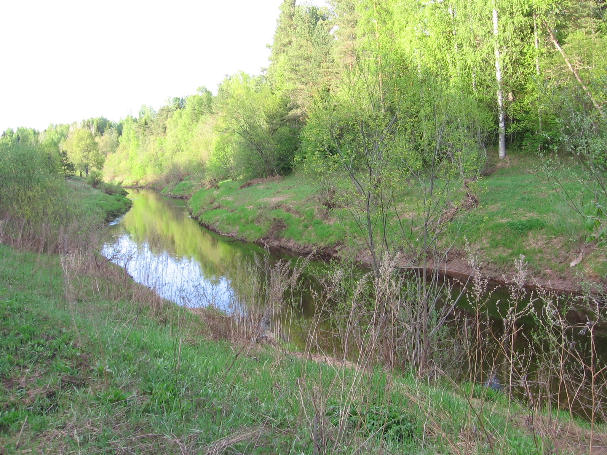 river Ptsjevzja between Budogosh and Mogilevo